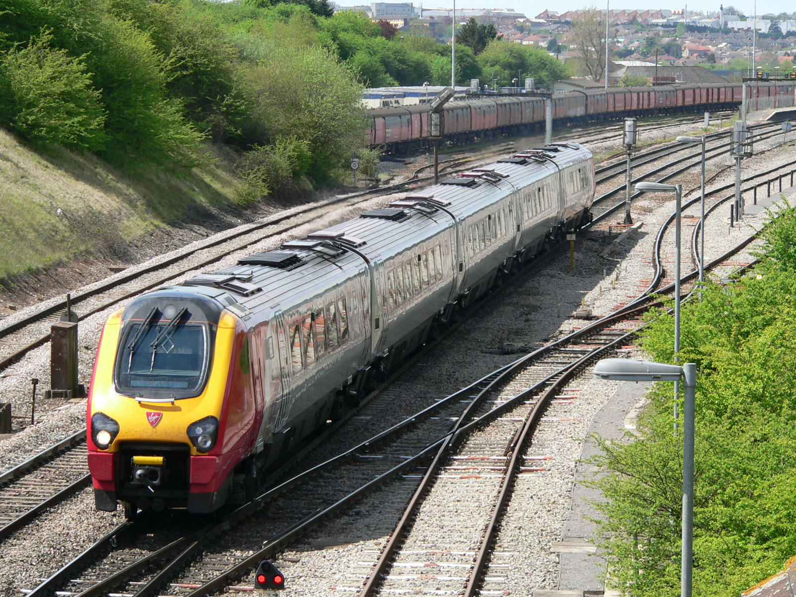 A Class 221 Virgin Voyager heads east from Bristol Parkway with a northbound cross-country service to Glasgow Central. Photographed from the apparently unnamed bridge leading from Hambrook Lane about a third of a mile east of the station.